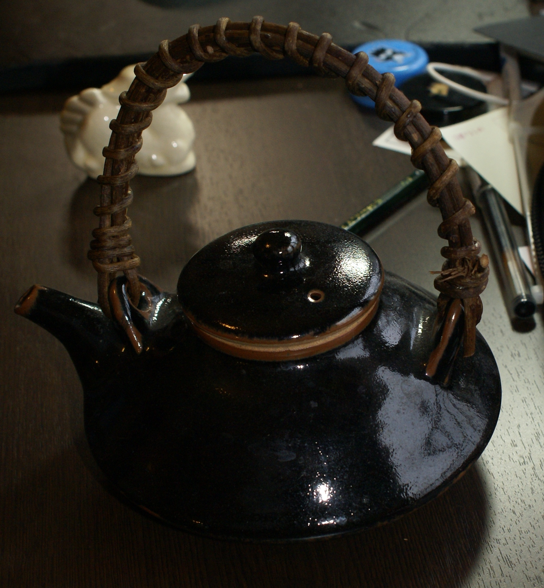 Satsumayaki (Kuro Satsuma)